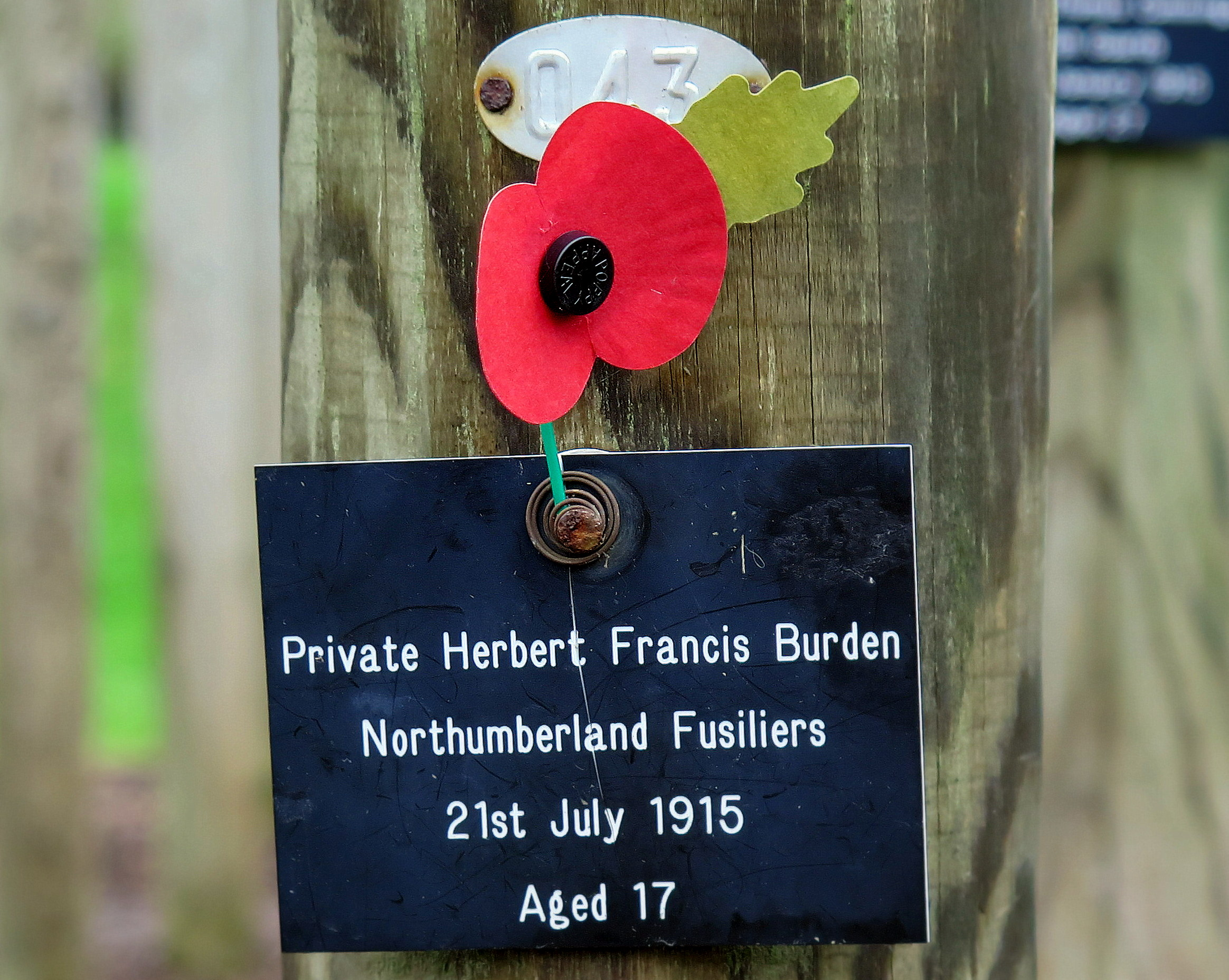 The memorial was modeled on the likeness of 17-year-old Private Herbert Burden